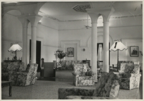 Astana Sarawak drawing room in 1959